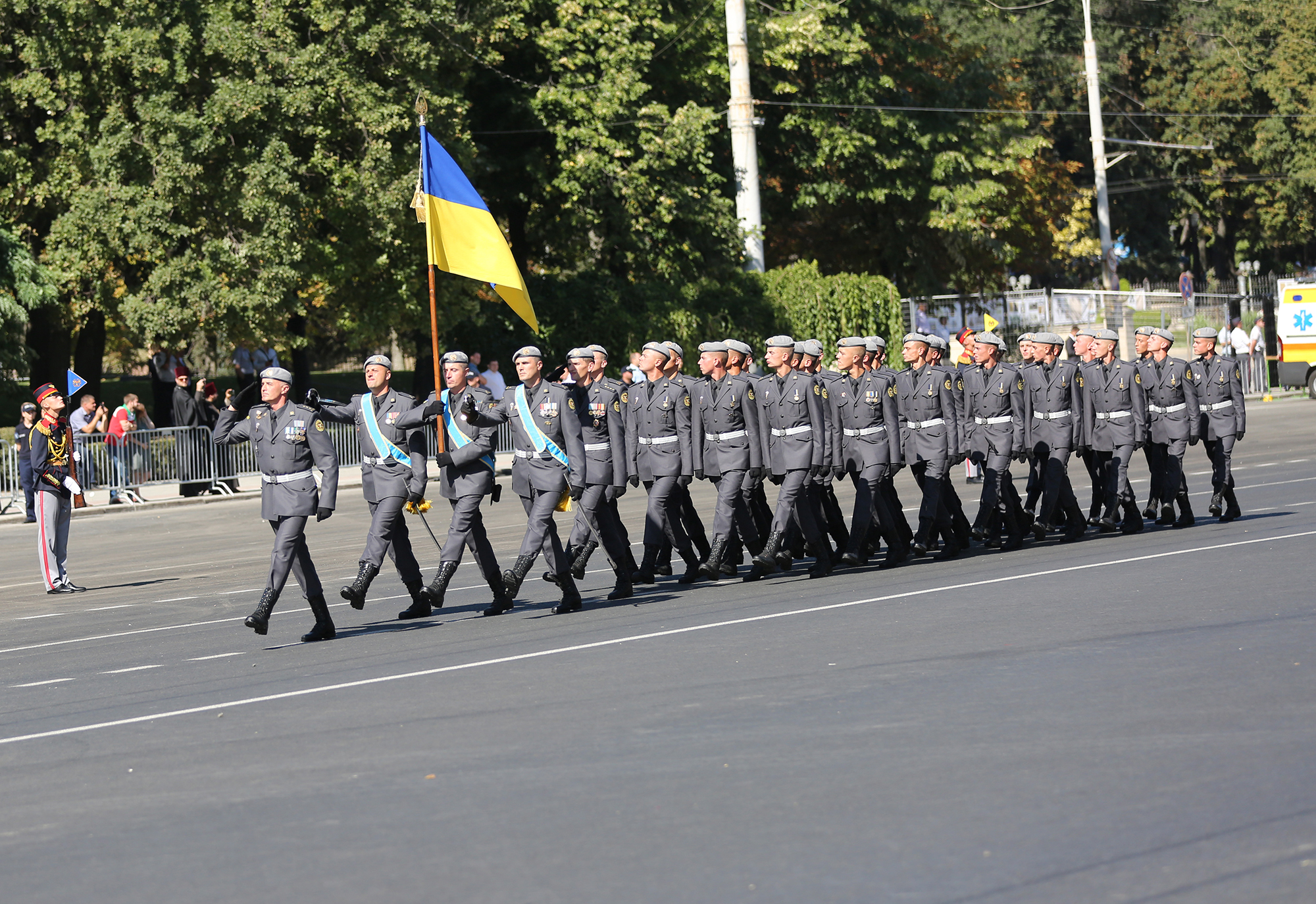 Сьогодні, 27 серпня, Міністр оборони України генерал армії України Степан Полторак взяв участь в урочистостях з нагоди відзначення 25 річниці незалежності Молдови